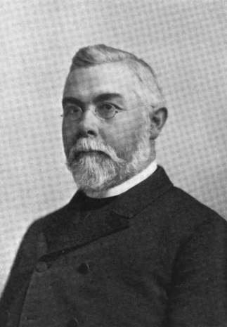 James Steptoe Johnston, second Episcopal Bishop of the Missionary District of Western Texas